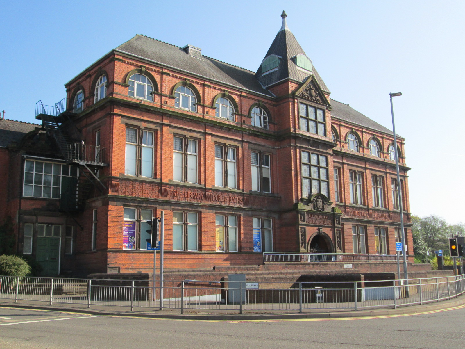 The Queen Victoria Jubilee Buildings, in Tunstall, Stoke-on-Trent.